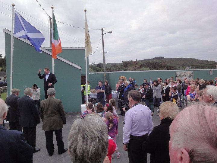 Paidi O Lionaird opening Feile na laoch in cuil aodha